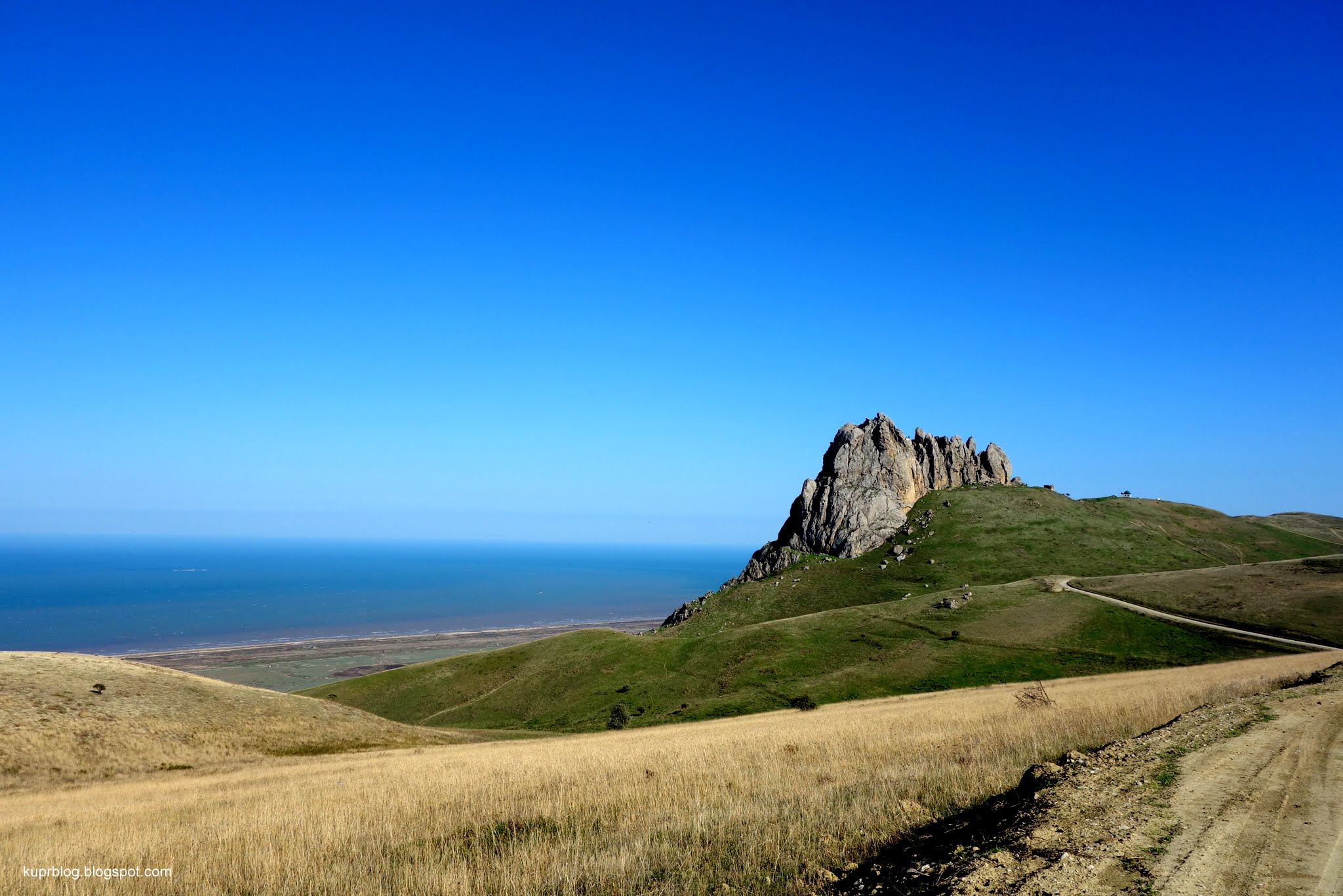 Rock in Siazan region of Azerbaijan